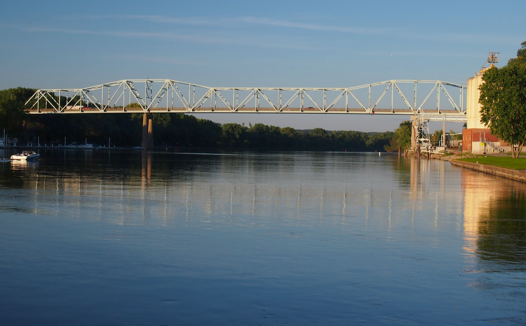 Red Wing Bridge carrying U.S. Route 63 over the Mississippi River, viewed from Levee Park, Red Wing, Minnesota, USA.